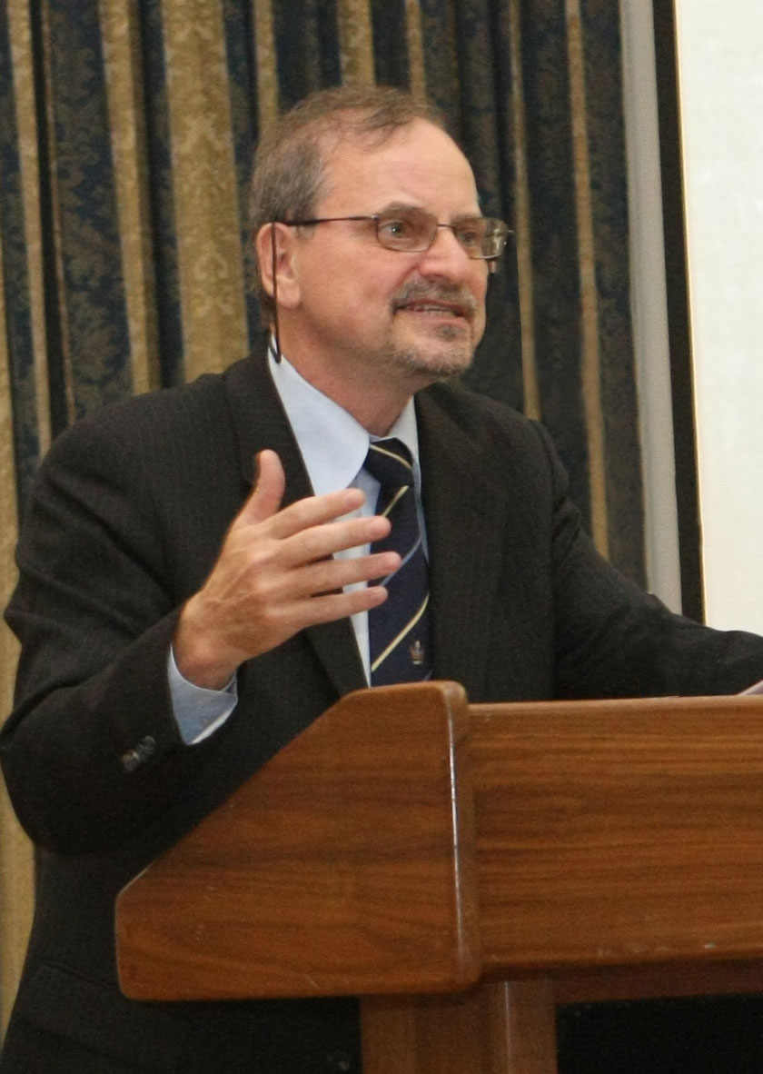 Alexander Genis Russian-American writer, broadcaster, and cultural critic.